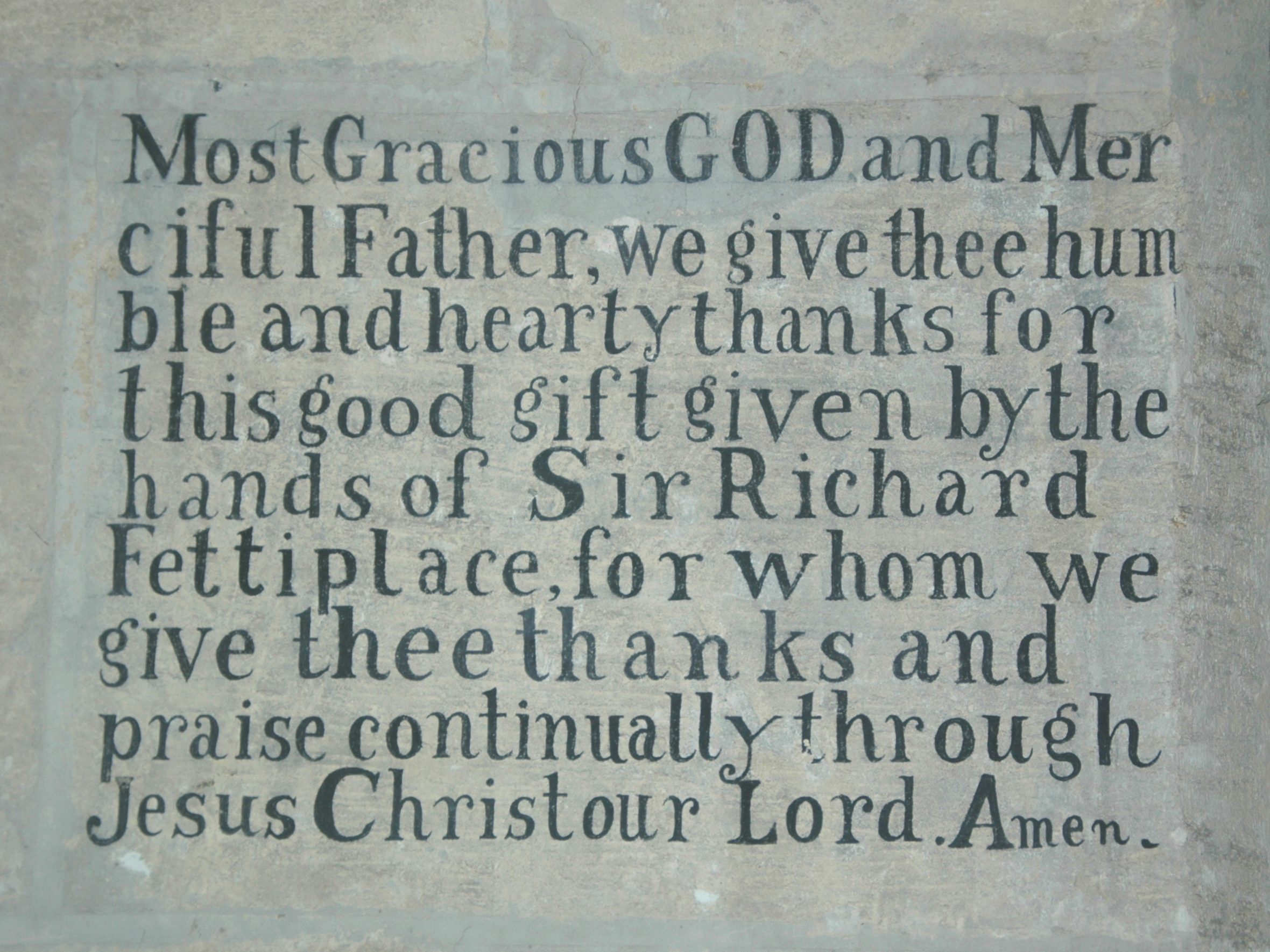 Inside St Laurence's parish church, Appleton, Oxfordshire: inscription on eastern impost of nave arcade